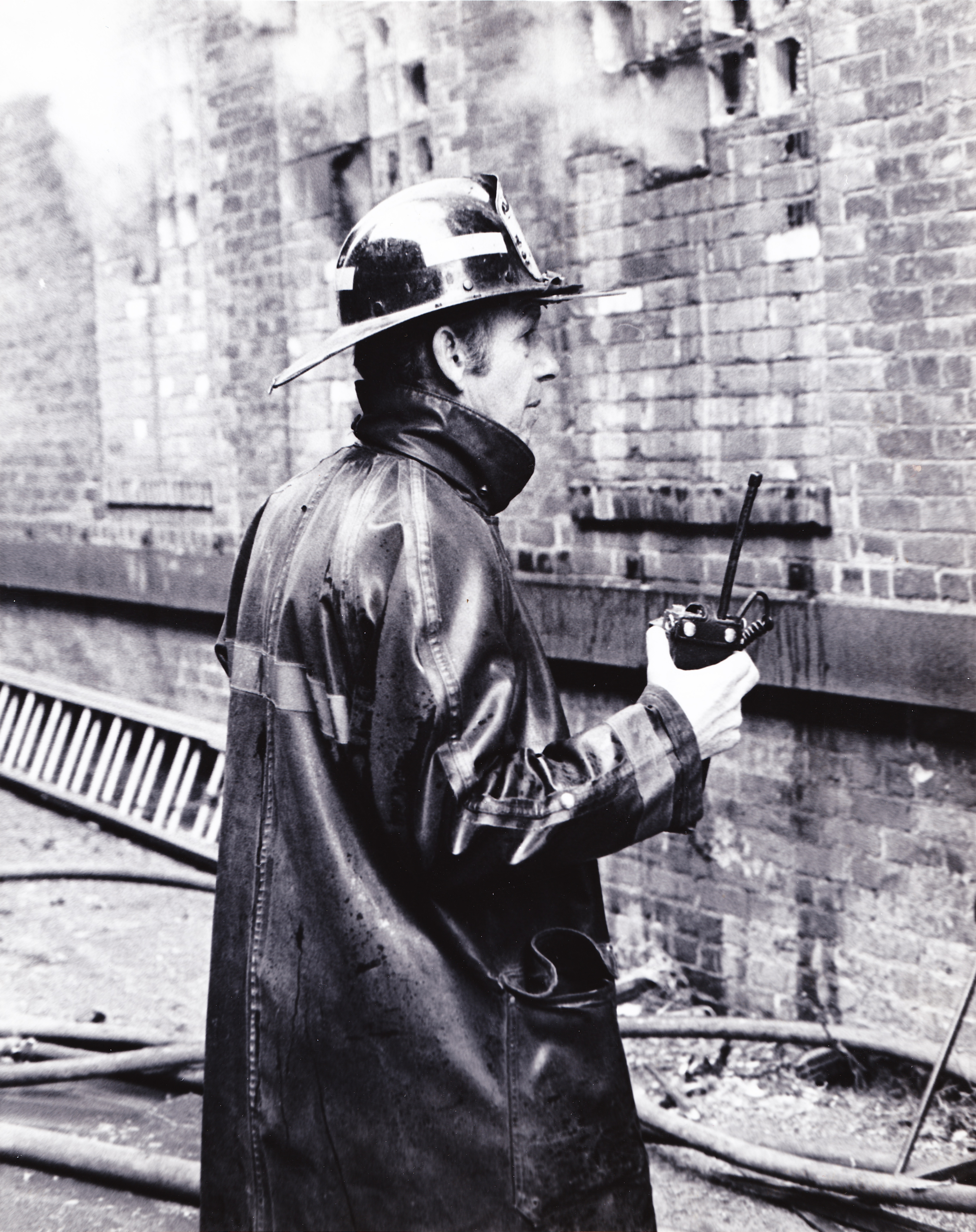 A fire fighter of the Detroit Fire Department